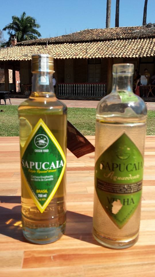 Sapucaia Cachaca original old bottle year 1933.